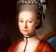 Portrait of Charlotte Baden (1740-1824)